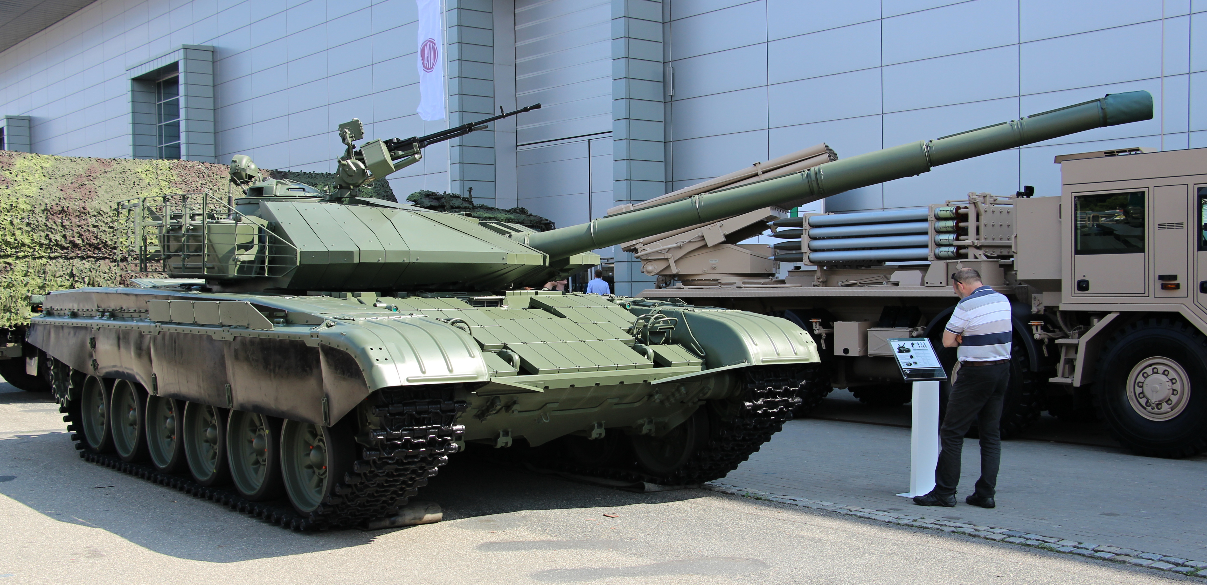 T-4 72 Scarab is a proposed modernisation of the T-72 main battle tank by the Czech company Excalibur Army. IDET 2017, Brno Exhibition Center, Czech Republic.